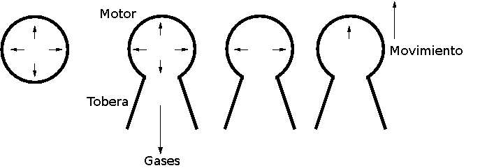 Operation of a rocket motor, with text in spanish